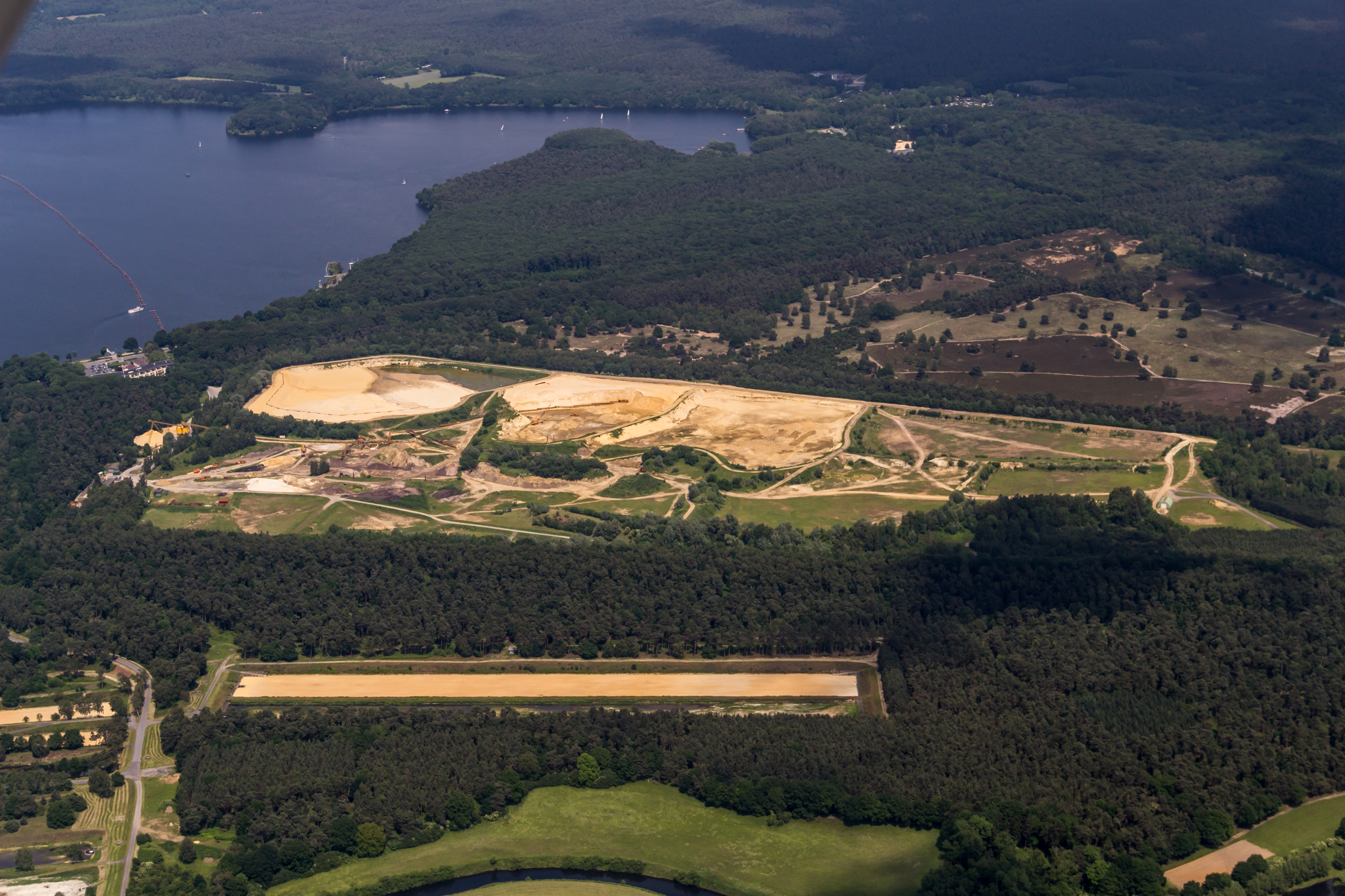 Nature reserve near Haltern am See, North Rhine-Westphalia, Germany